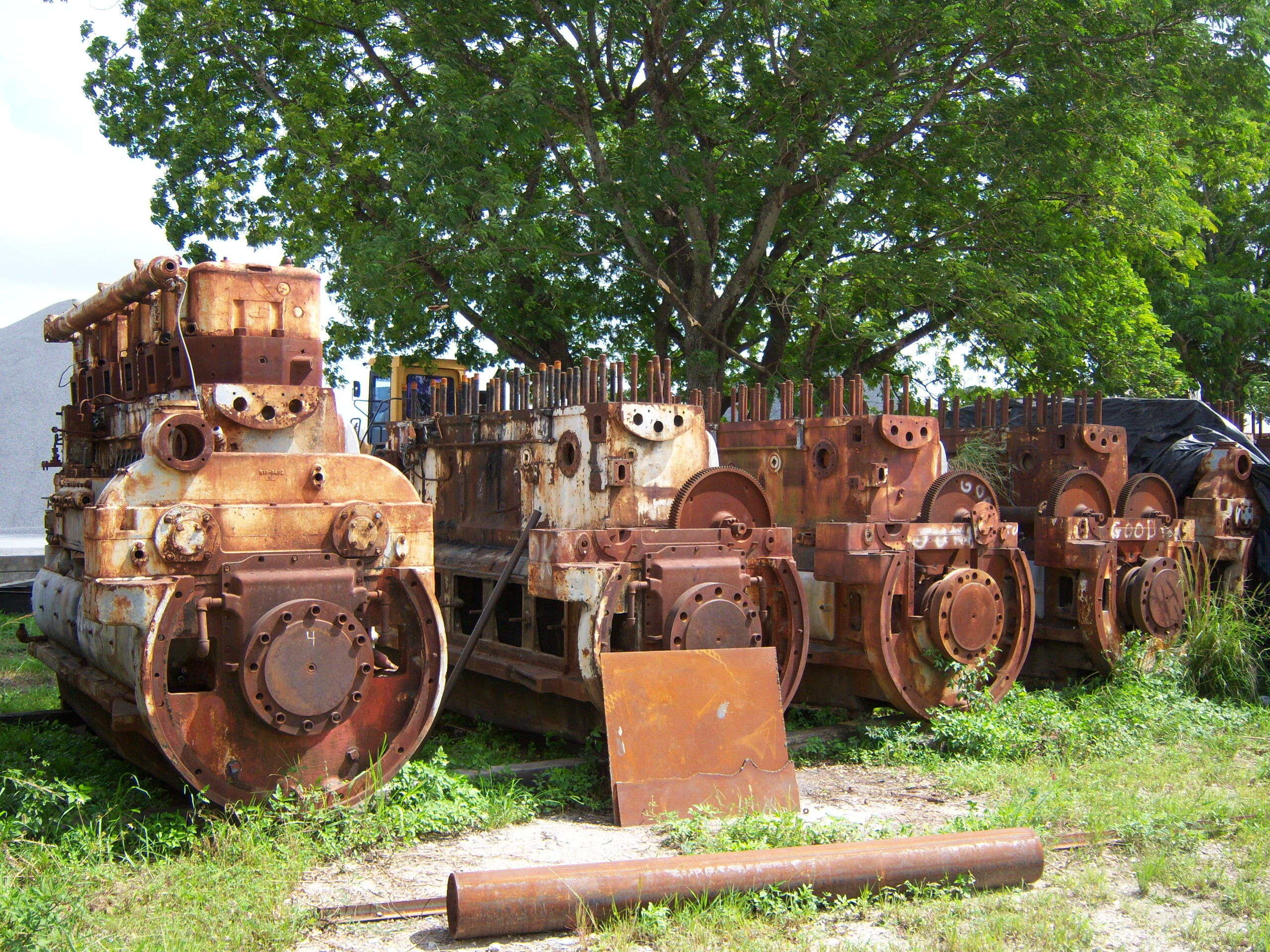 Self-Taken. Conrad Yelvington aggregate facility in downtown Orlando, Florida.